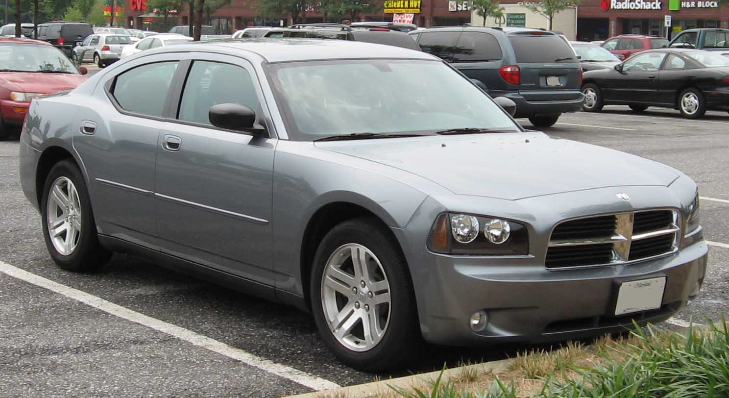 2006-2007 Dodge Charger photographed in USA.